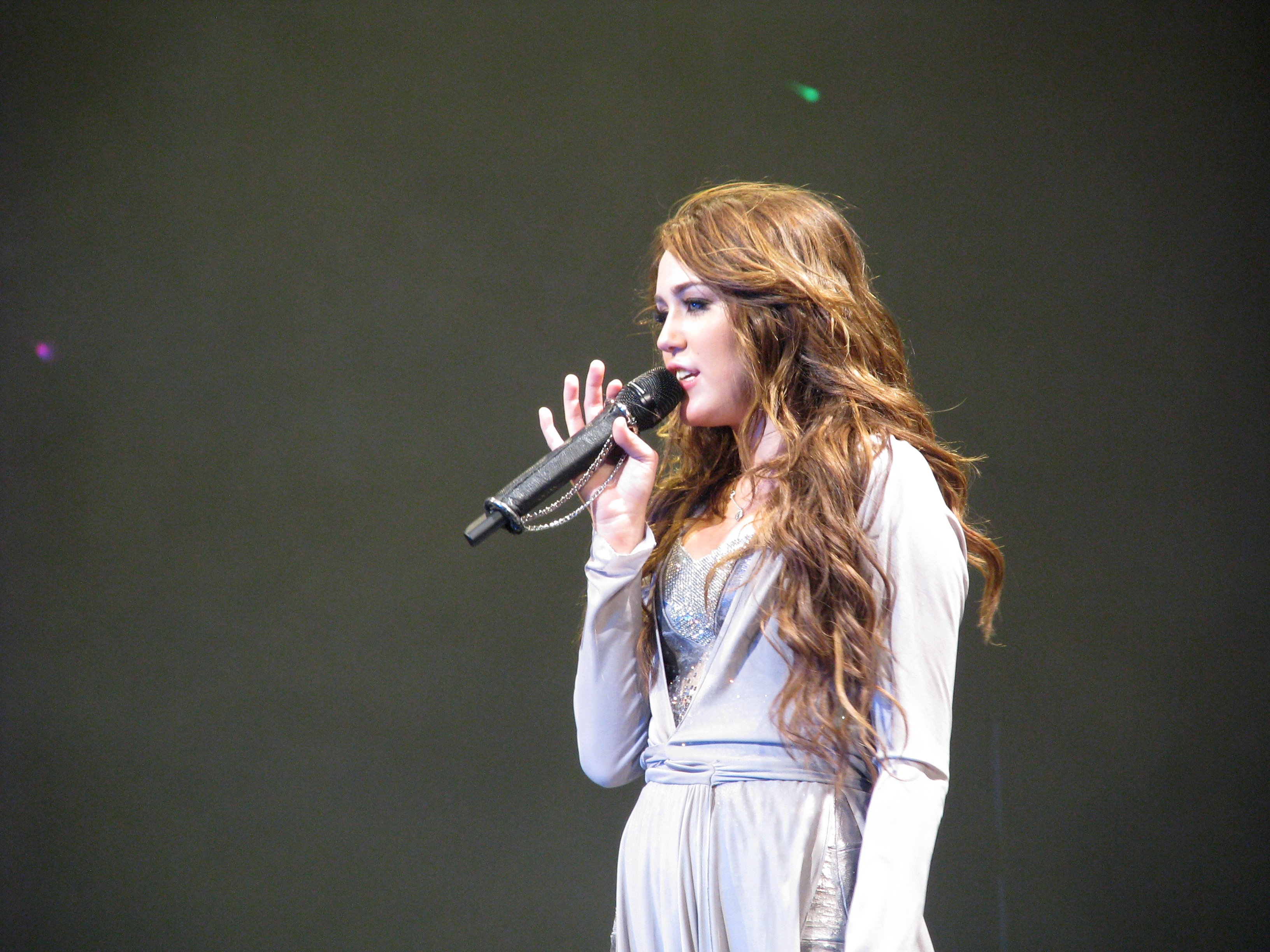 A teen singing.